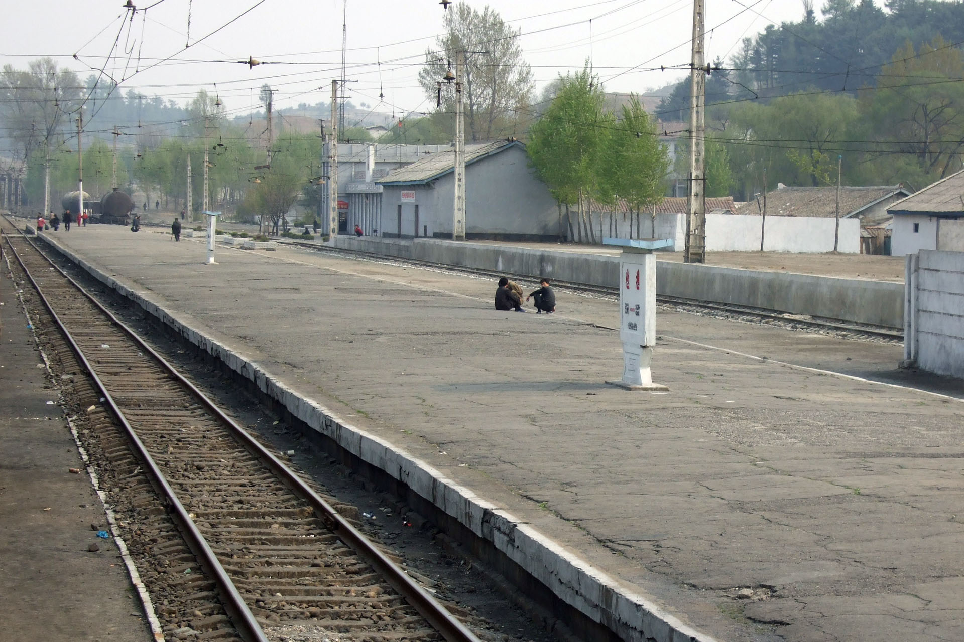 Sonchon railway station, central North Pyongan province, North Korea.